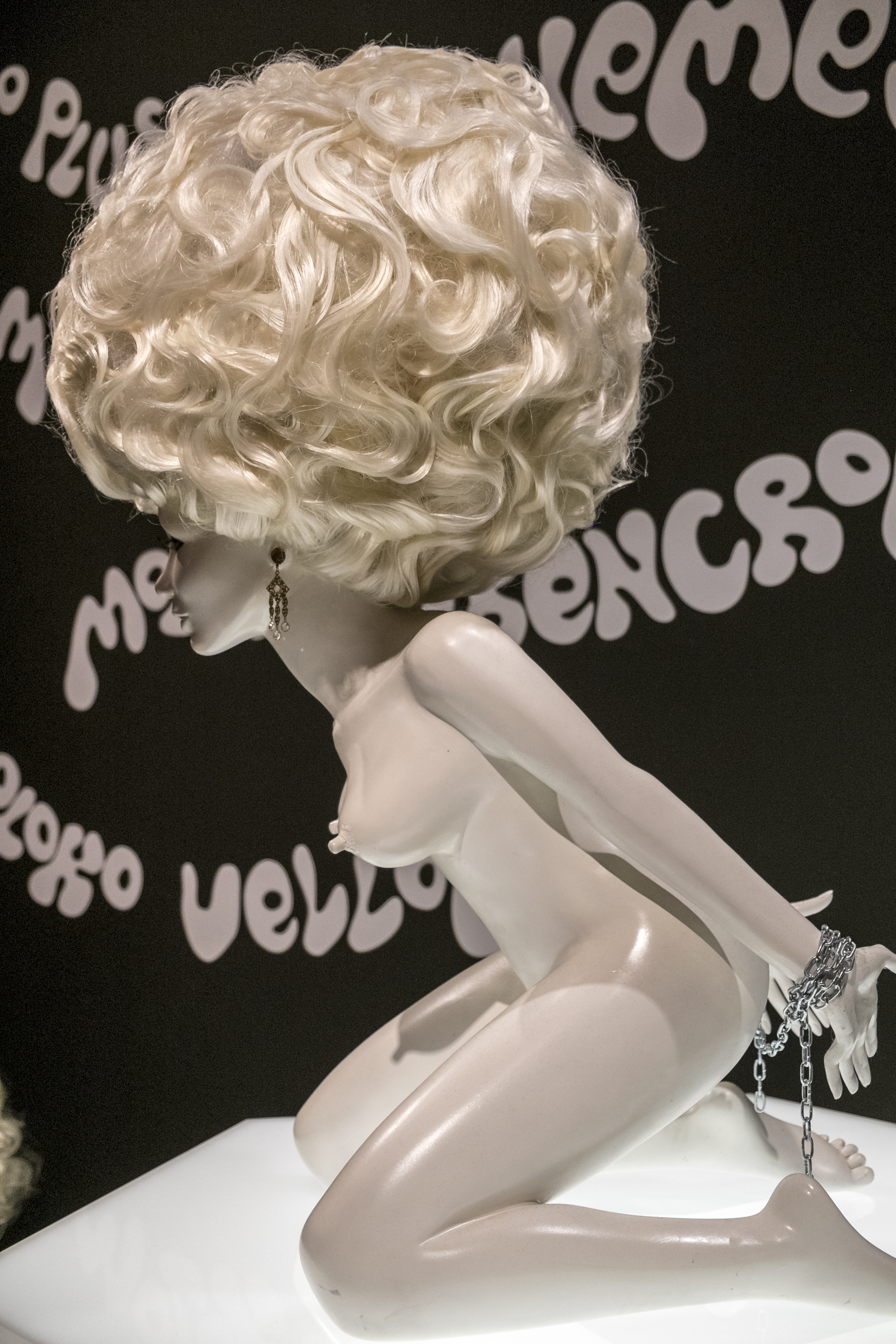 Korova Milk Bar mannequin from the film A Clockwork Orange by Stanley Kubrick. Exhibit at LACMA.